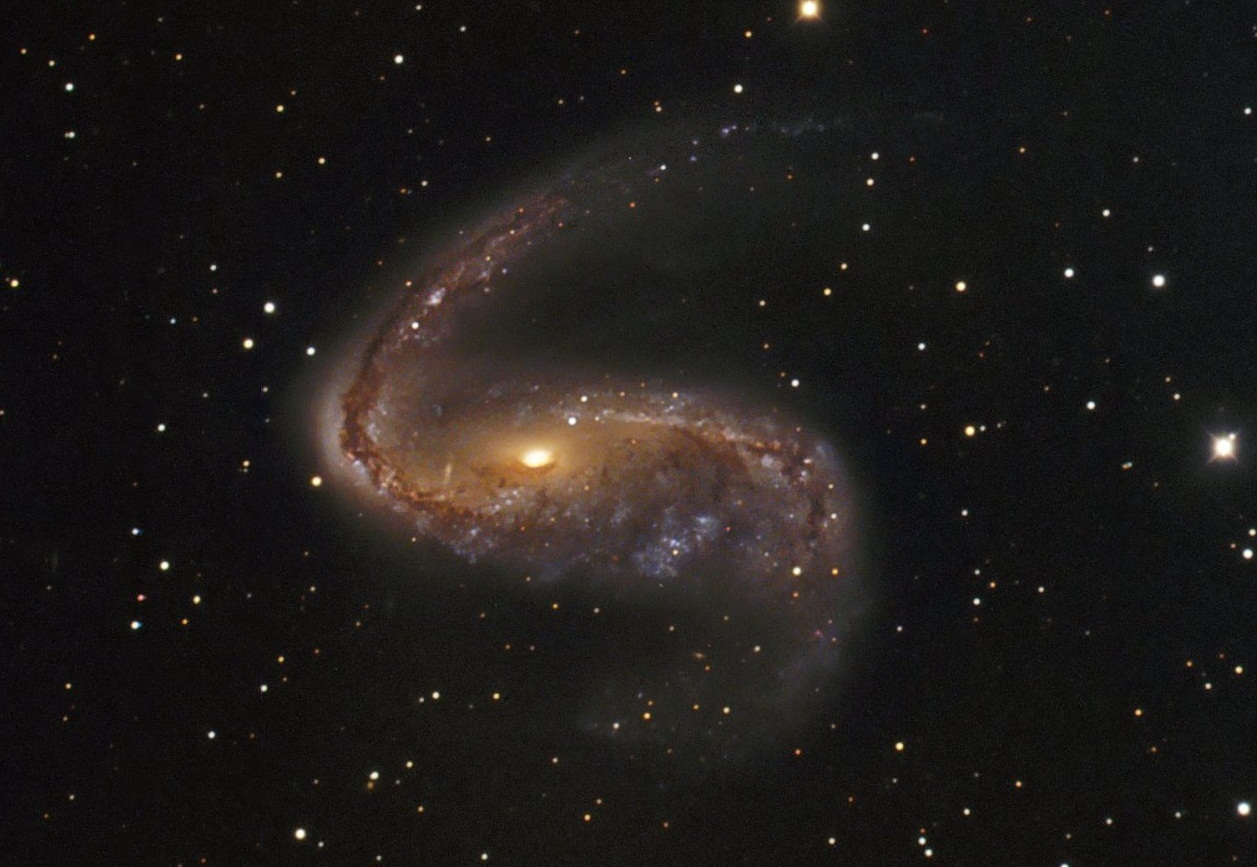 The distorted galaxy NGC 2442, also known as the Meathook Galaxy, is located some 50 million light-years away in the constellation of Volans (the Flying Fish). The galaxy is 75 000 light-years wide and features two dusty spiral arms extending from a pronounced central bar that give it a hook-like appearance, hence its nickname. The galaxy’s distorted shape is most likely the result of a close encounter with a smaller, unseen galaxy. This image is based on data acquired with the 1.5-metre Danish telescope at ESO’s La Silla Observatory in Chile, through three filters (B: 250 s, V: 187 s, R: 150 s). ID: ngc2442 Credit: ESO/IDA/Danish 1.5 m/R. Gendler, J.-E. Ovaldsen, C. C. Thöne and C. Féron